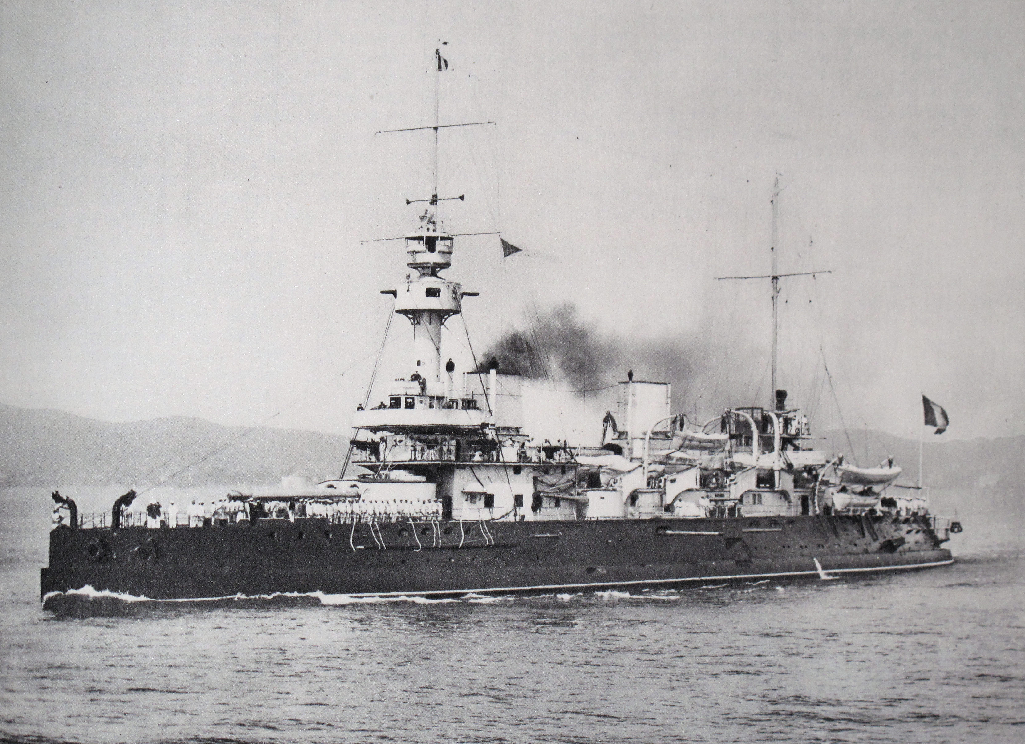 French battleship Brennus